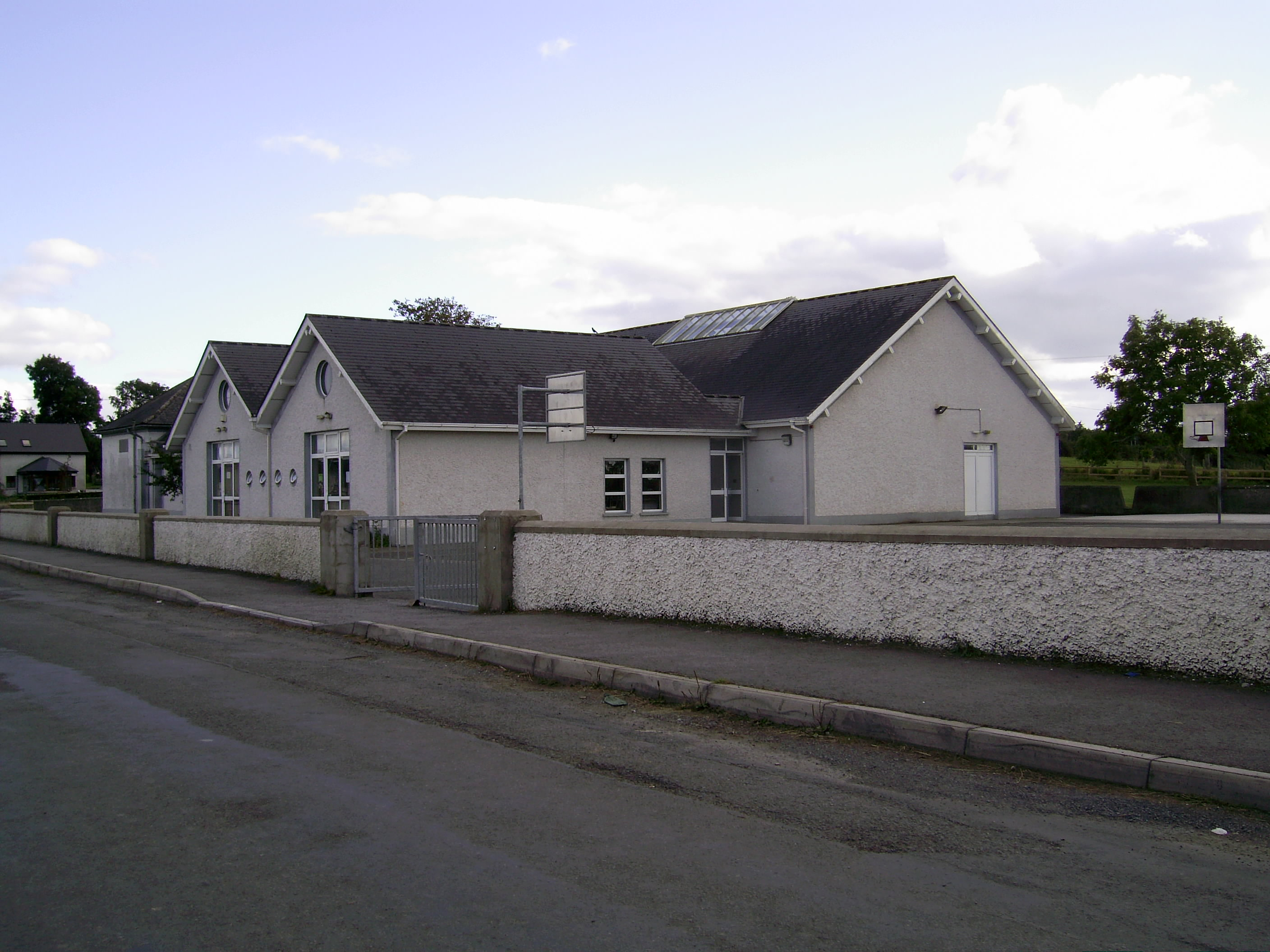 An scoil Rath Cairn.jpg